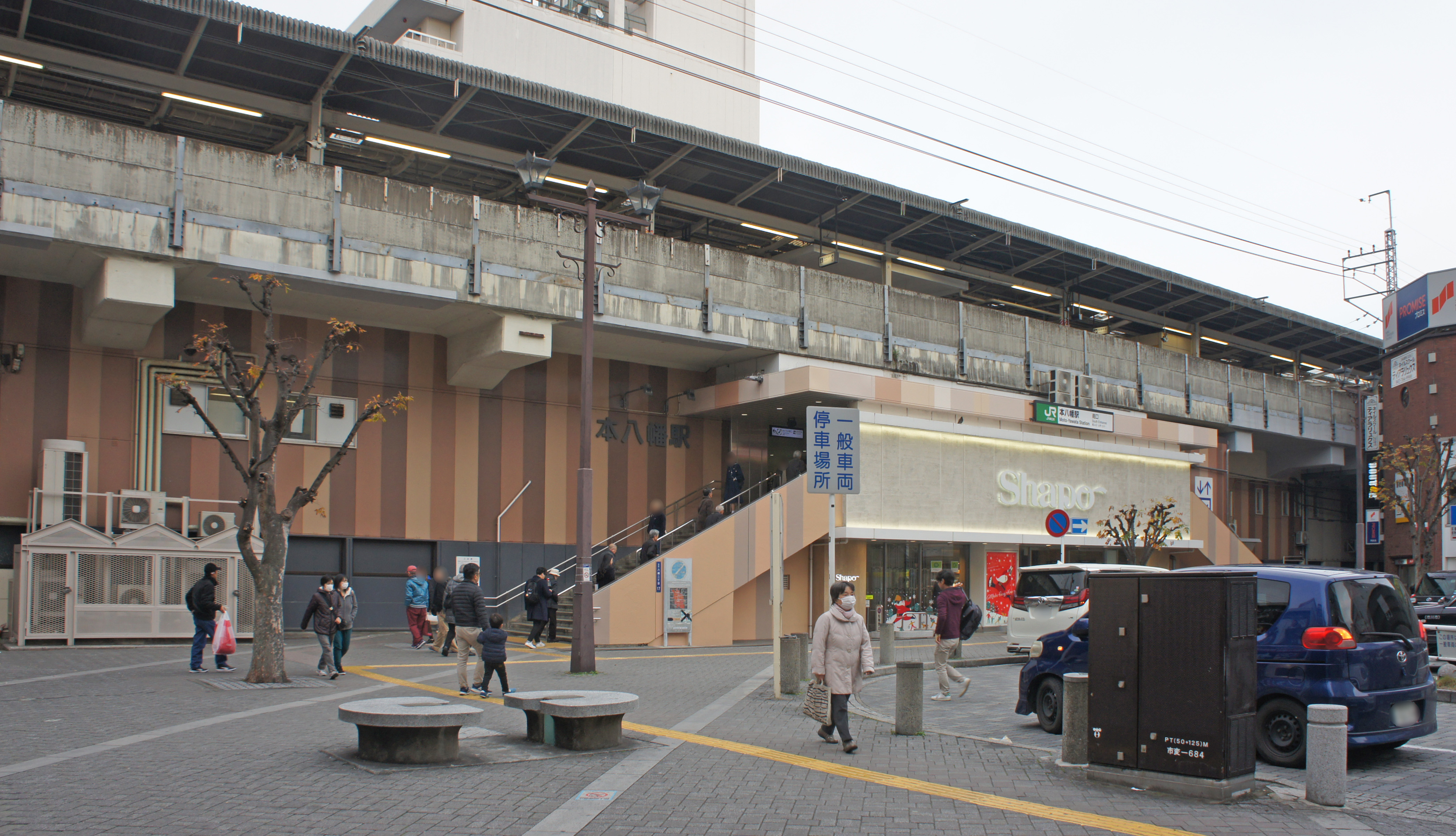 South Exit of JR Sobu-Main-Line Moto-Yawata Station